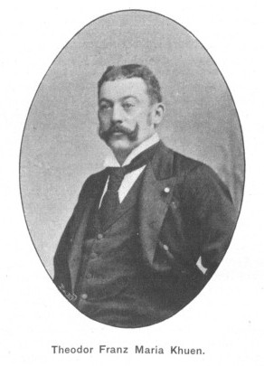 Photograph of Theodor Franz Maria Khuen (1860-1922), Austrian sculptor